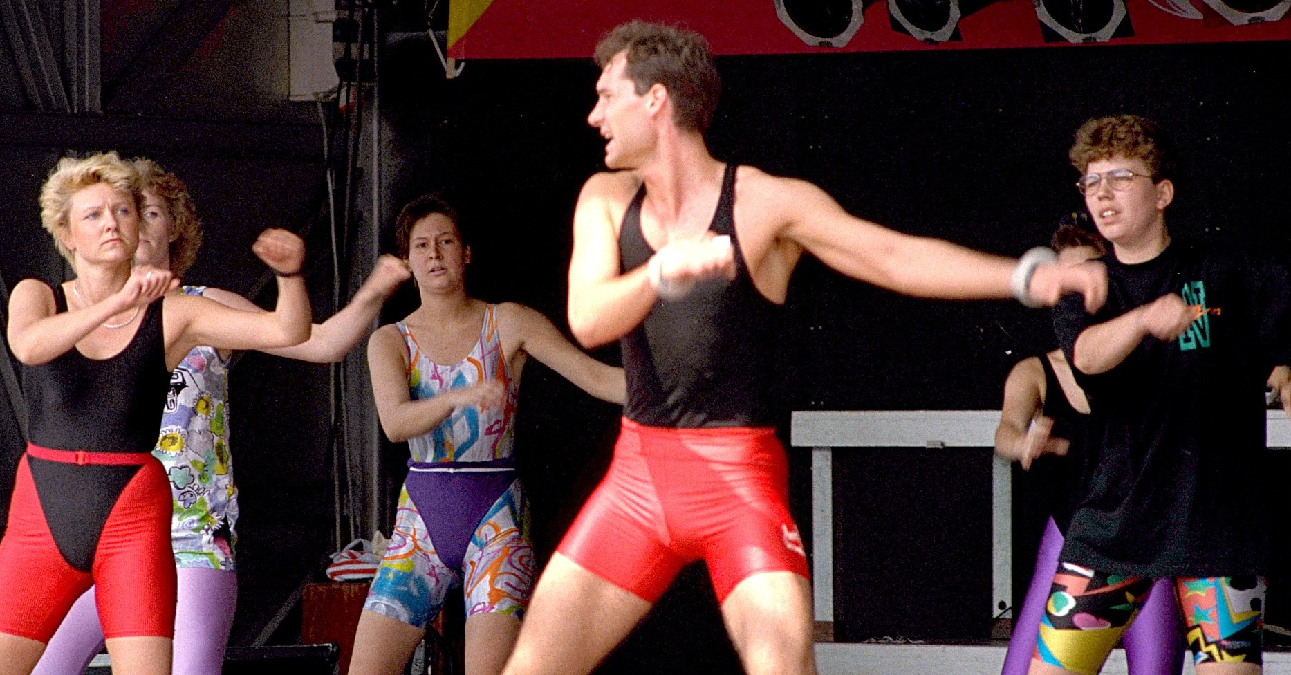 A public demonstration of aerobic exercises